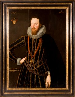 Robert Peake the Elder, Portrait of Lord Montague, 1601